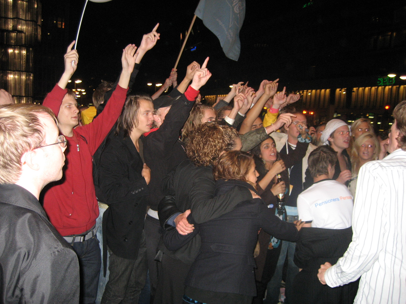 Alliance for Sweden supporters celebrates the victory in the 2006 general election, at the fountain at Sergels Torg in Stockholm.